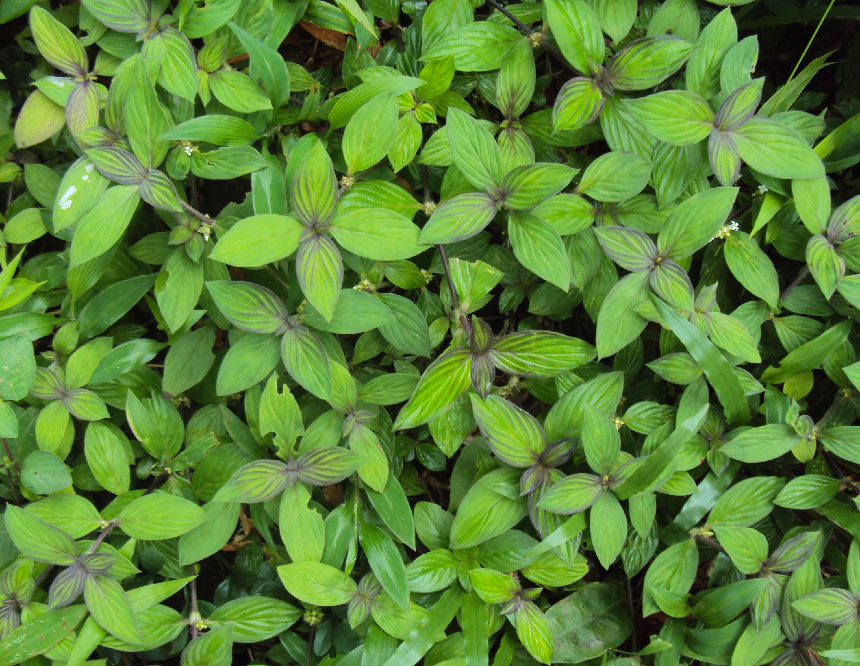 Spermacoce ocymoides